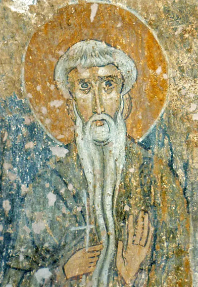 medieval church in Pataleniza Bulgaria.The fresco